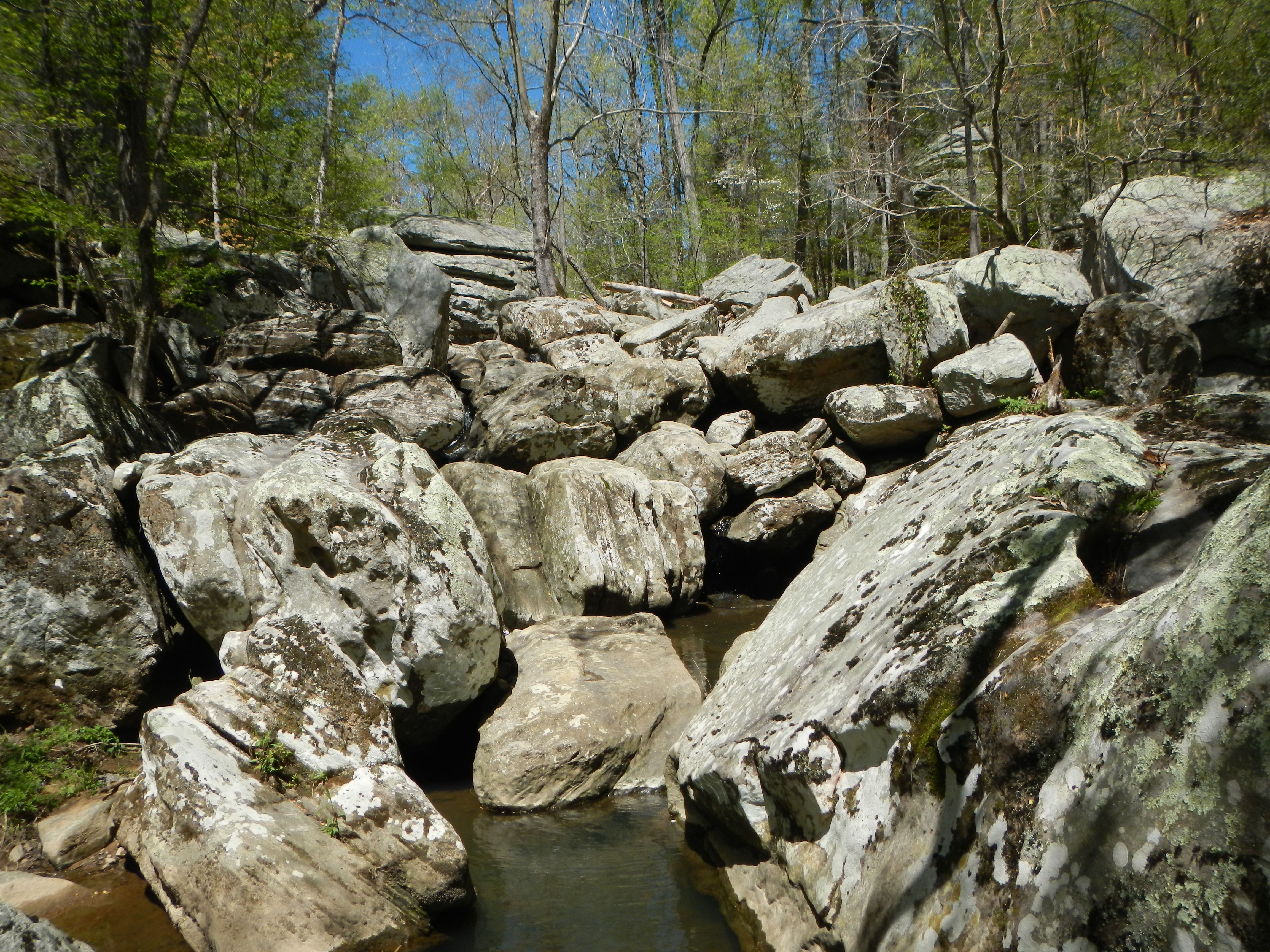 Ghost Dance Canyon, Dixon Springs State Park. The jumble of boulders in the stream. There are a lot of very small waterfalls hidden among the boulders.